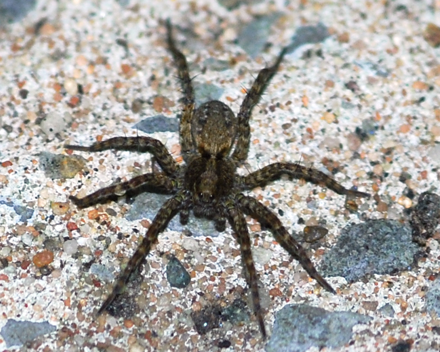 still playing with the Sigma 105mm macro :-)